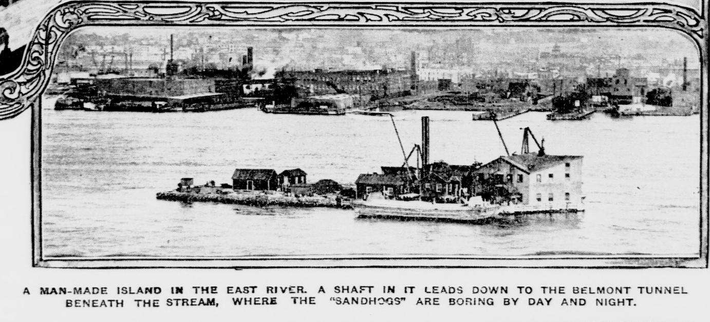 New-York tribune. (New York [N.Y.]) 1866-1924 October 14, 1906, Image 15 Notes: Cover, illustrated supplement. Format: Newspaper page, from microfilm Rights Info: No known restrictions on reproduction. Repository: Library of Congress, Serial and Government Publications Division, Washington, D.C. 20540 USA. Part Of: Chronicling America (Library of Congress) (DLC) - Persistent URL: More information about the Chronicling America Web site is available at This file: U Thant Island (crop) Text: A MAN-MADE ISLAND IN THE EAST RIVER. A SHAFT IN IT LEADS DOWN TO THE BELMONT TUNNELBENEATH THE STREAM, WHERE THE "SANDHOGS" ARE BORING BY DAY AND NIGHT.